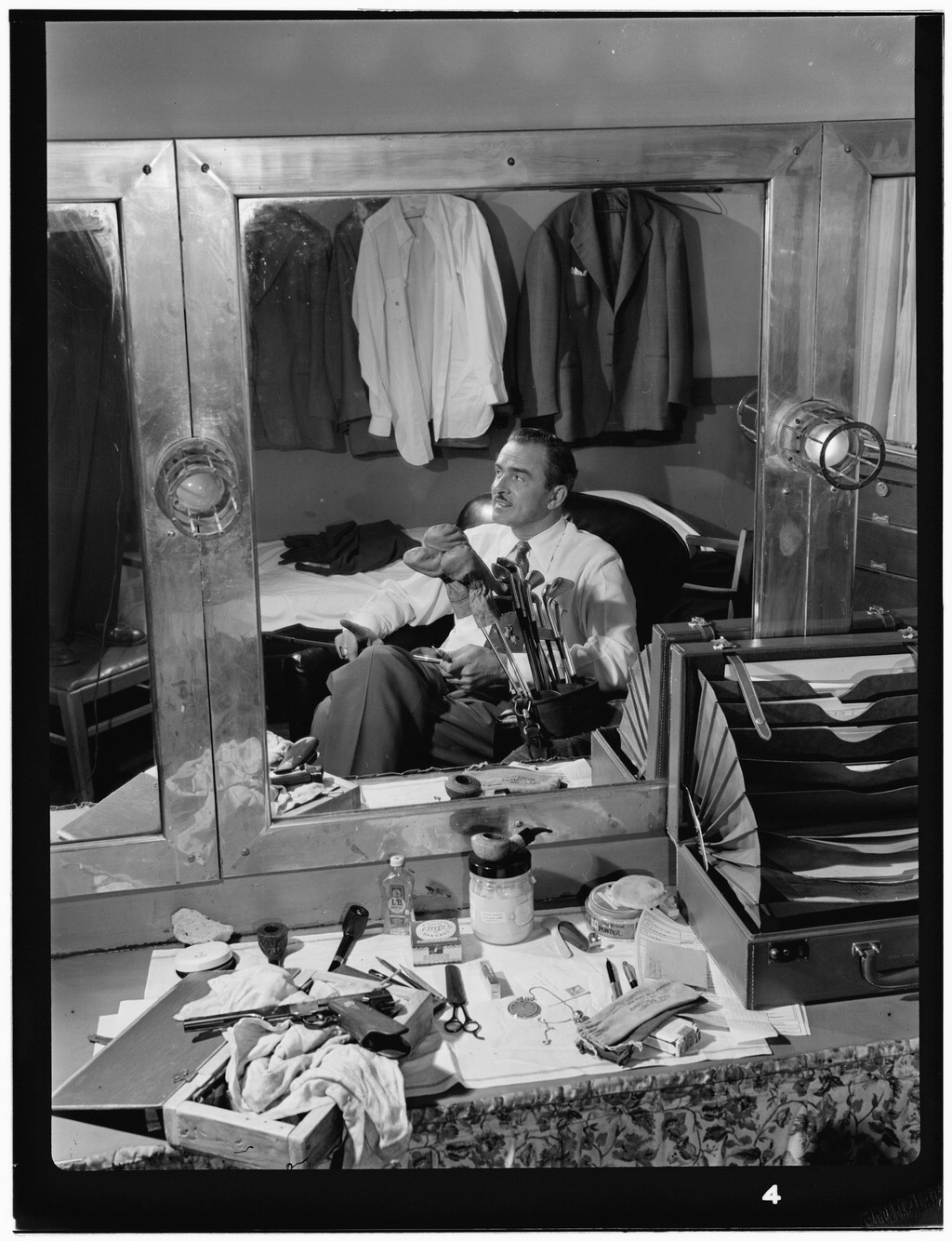 Gottlieb, William P., 1917-, photographer. [Portrait of Glen Gray, Paramount Theater, New York, N.Y., ca. July 1946] 1 negative : b&w ; 3 1/4 x 4 1/4 in. Caption from Down Beat: Second in a series of intimate shots of name musicians by Bill Gottlieb, as reflected in their dressing room mirrors, is Glen Gray, leader of Casa Loma, posed during his recent engagement at the New York Paramount theater. No character is Mr. Gray, but a substantial pillar of the community, as shown by the absence of loud ties and trick suits, and the presence of a huge bag of golf clubs, a business-like smoking pipe and a neat portable office unfolded at the right. Notes: Gottlieb Collection Assignment No. 386 Reference print available in Music Division, Library of Congress. Purchase William P. Gottlieb Forms part of: William P. Gottlieb Collection (Library of Congress). In: "Through the looking glass," Down Beat, v. 13, no. 14 (July 1, 1946), p. 12. Subjects: Gray, Glen, 1906-1963 Jazz musicians--1940-1950. Saxophonists--1940-1950. Paramount Theater Format: Portrait photographs--1940-1950. Film negatives--1940-1950. Rights Info: Mr. Gottlieb has dedicated these works to the public domain, but rights of privacy and publicity may apply. Repository: (negative) Library of Congress, Prints & Photographs Division, Washington D.C. 20540 USA, (reference print) Library of Congress, Music Division, Washington D.C. 20540 USA, Part Of: William P. Gottlieb Collection (DLC) 99-401005 General information about the Gottlieb Collection is available at Persistent URL: Call Number: LC-GLB23- 0350 This work is from the William P. Gottlieb collection at the Library of Congress. Rights and restrictions. In accordance with the wishes of William Gottlieb, the photographs in this collection entered into the public domain on February 16, 2010.